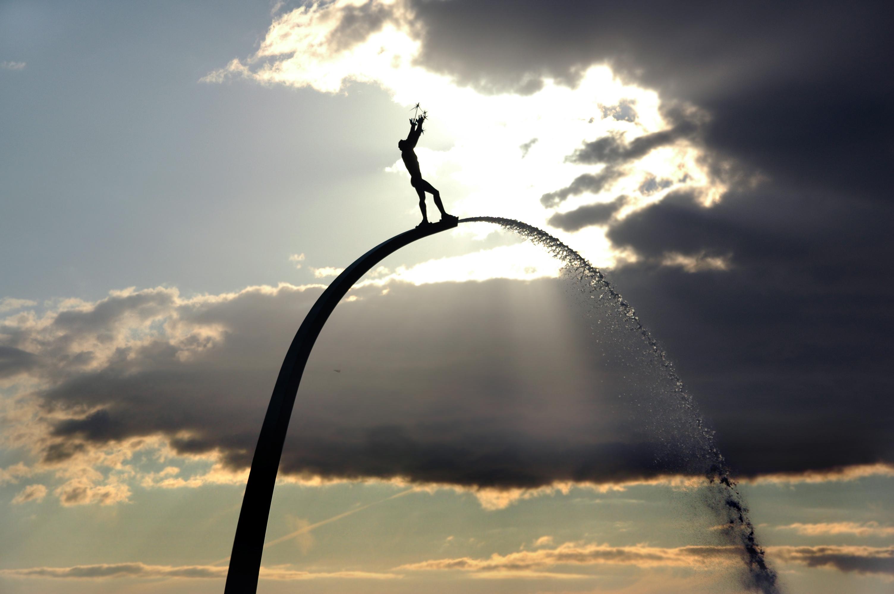 The "God, our Father, on the Rainbow" fountain in Nacka Strand, a suburb on the main waterway approaching central Stockholm, Sweden. The fountain's builder was Carl Milles, a Swedish sculptor known for his fountains.